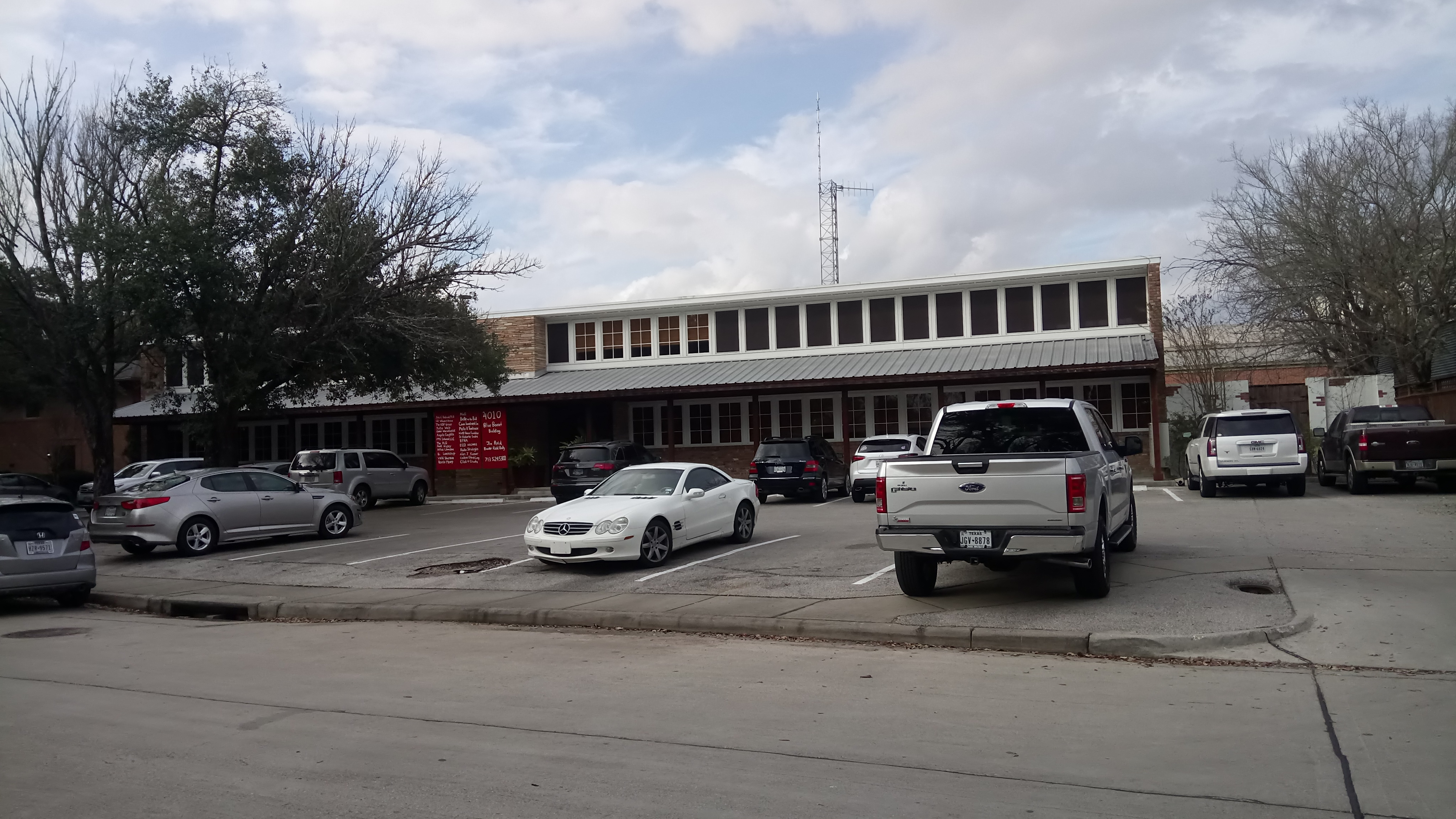 Braeswood Place Homeowners Association Building